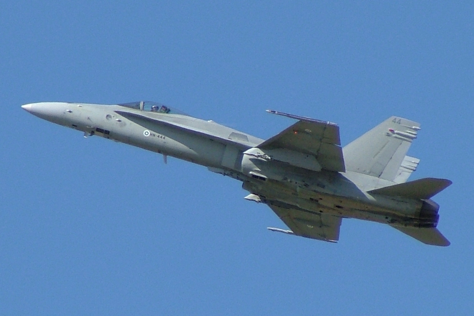 F-18C. Finnish Air Force. At RIAT 2005. By Andrew P Clarke.